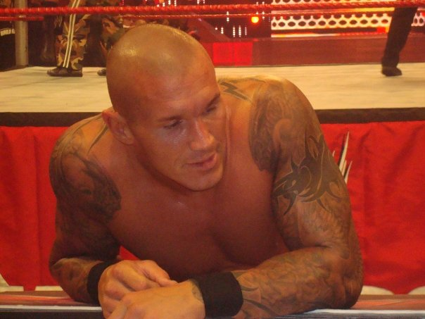 WWE Wrestler Randy Orton in 2009, with a shaved head.